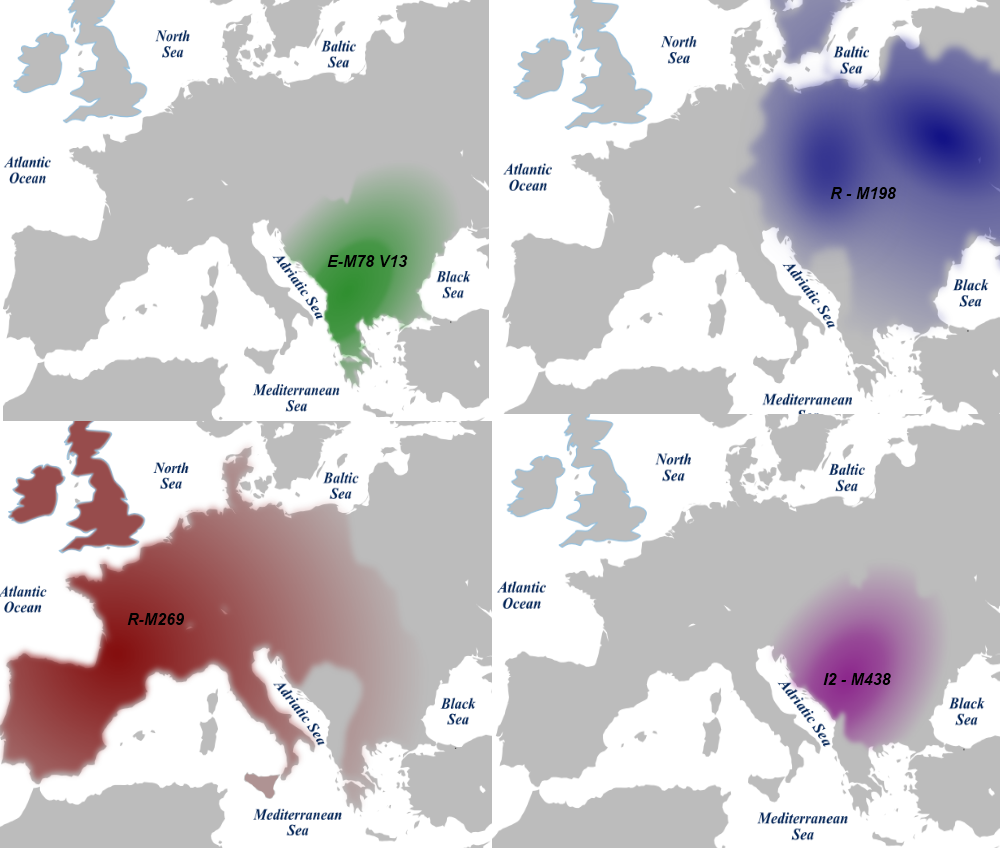 Major Y-DNA haplogroups in Southeastern Europe (low resolution view)